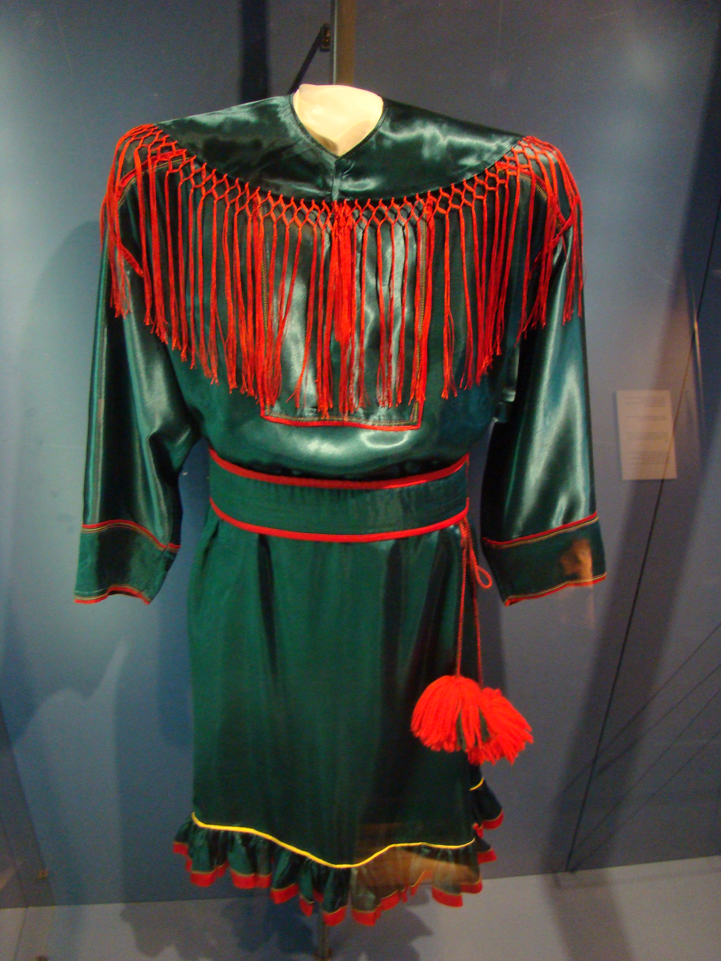 Sami clothing in the Arctikum museum, in Rovaniemi, Finland.